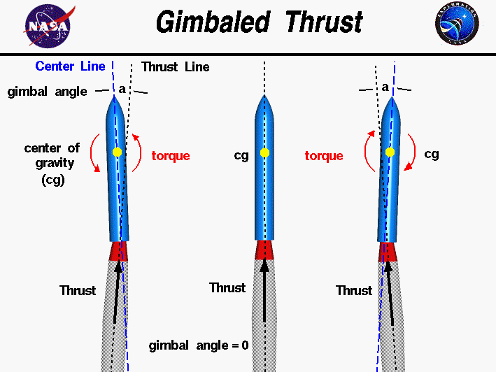 Rocket showing the physics of thrust vectoring.